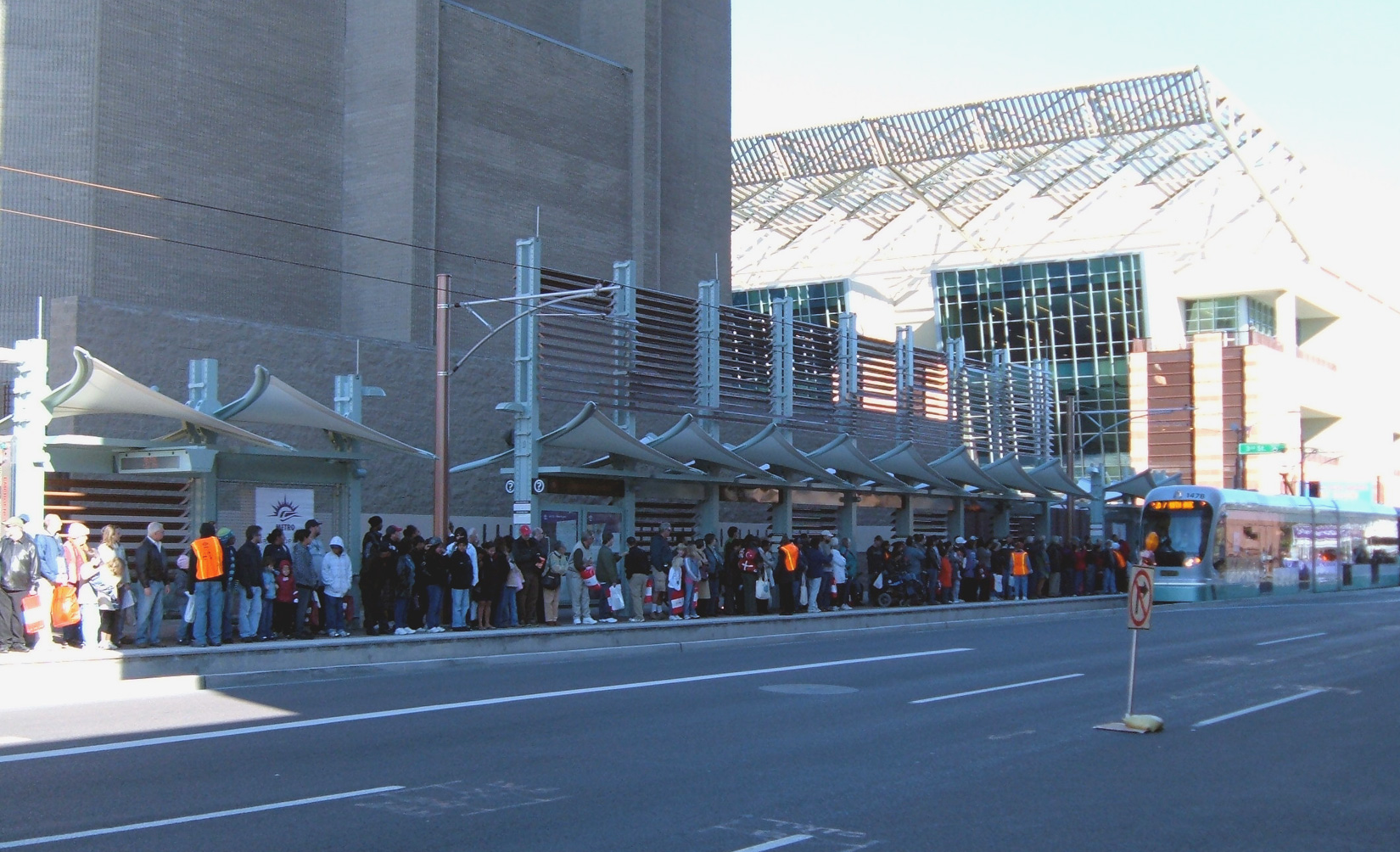 Photograph of the Convention Center/Ballpark/Arena (or Washington at 3rd Street) Station of METRO Light Rail that serves the Phoenix area, Arizona, USA. This is the westbound station, located about 500 feet north of the eastbound station. Visible in the left background is Phoenix Convention Center. This photograph was taken during the light rail's grand opening celebration on December 27, 2008.